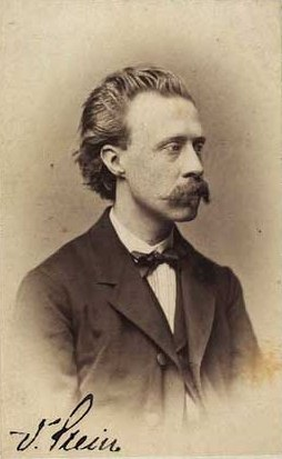 Frederik Siegfred Edvard Valdemar Stein (1836-1905), Danish chemist, founder of Stein's Laboratory